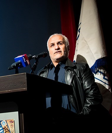 Speech of Hassan Abbasi in Fifth anniversary of Mostafa Ahmadi Roshan